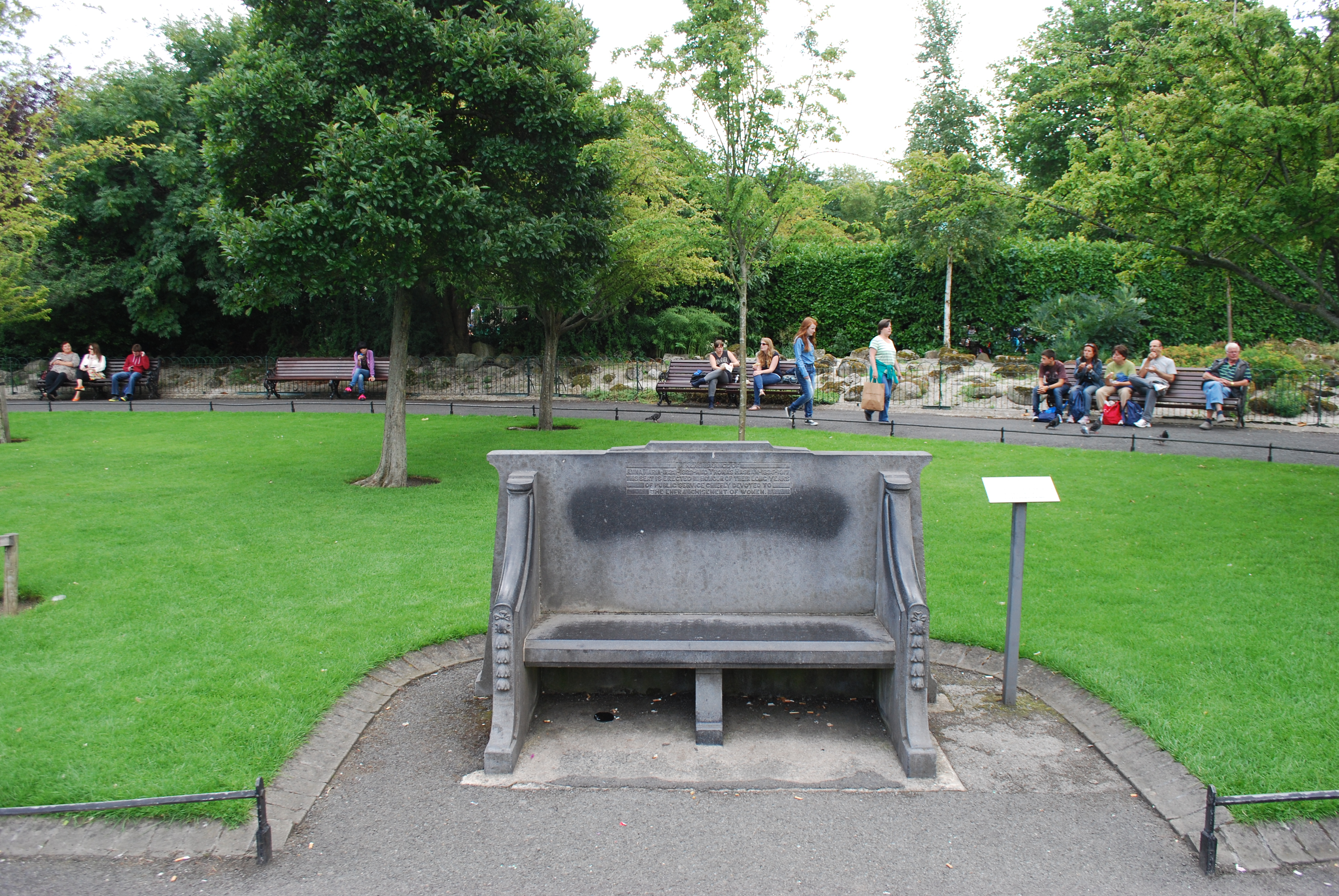 Anna and Thomas Haslam memorial seat in St Stephen's Green, Dublin.